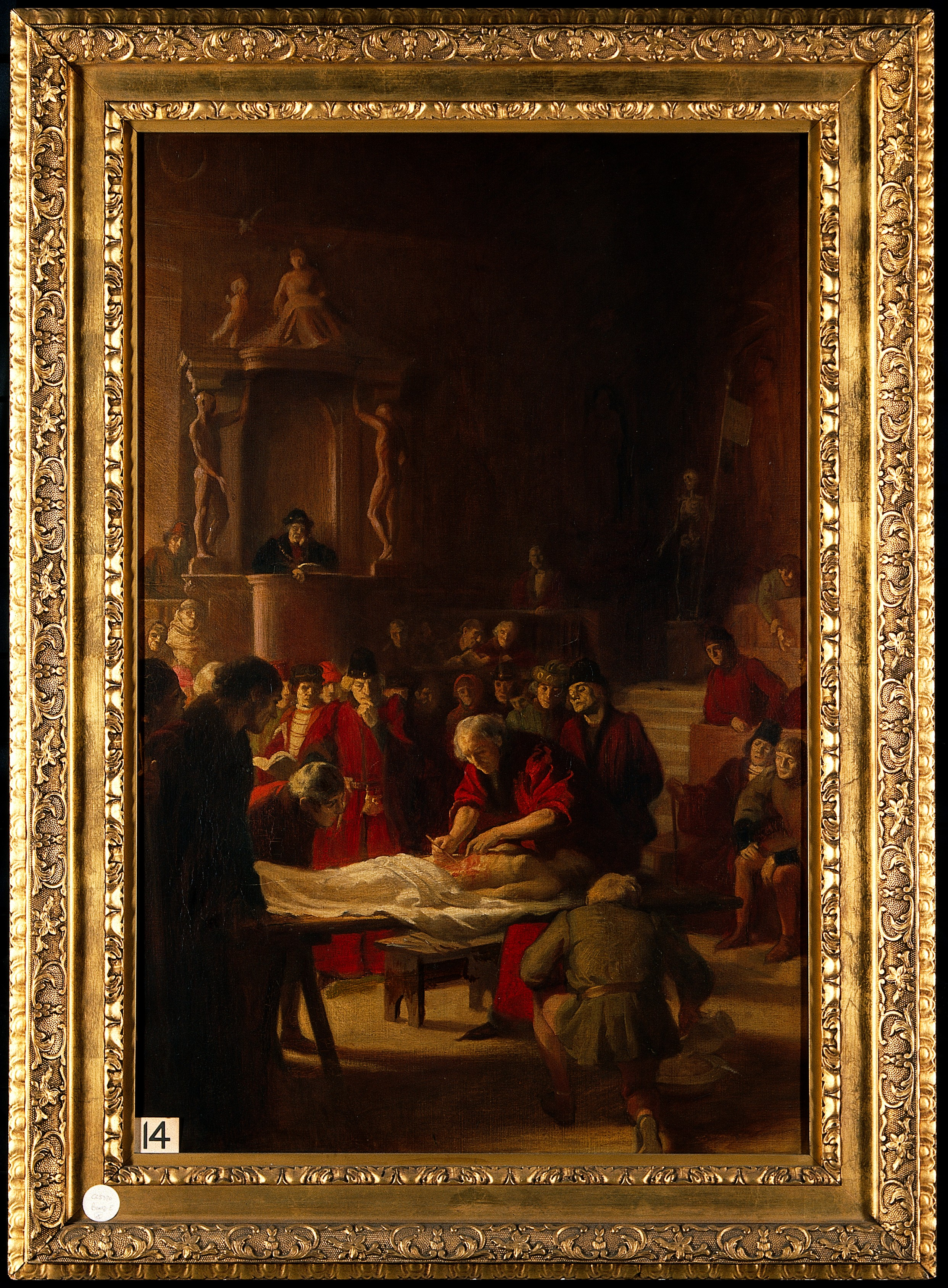 Mundinus, the Italian anatomist, making his first dissection in the anatomy theatre at Bologna, 1318. Oil painting by Ernest Board. Iconographic Collections Keywords: ernest board; Ernest Board; Dissection; anatomy theatre; mundinus; bologna 1318; oil painting